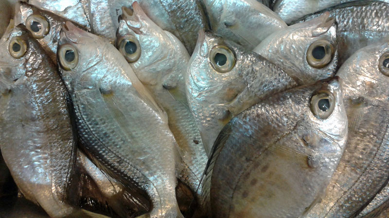 Leiopotherapon plumbeus being sold at a market in the Philippines. This species, known locally as 'ayungin', is a common food fish in the country.Tagalog: Ayungin (Leiotherapon plumbeus) na binebenta sa isang palengke sa Pilipinas.